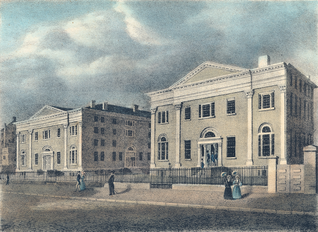 Painting of Medical Hall and College Hall at the University of Pennsylvania in 1842 located west side of 9th Street between Market and Chestnut Streets in Philadelphia, Pennsylvania.